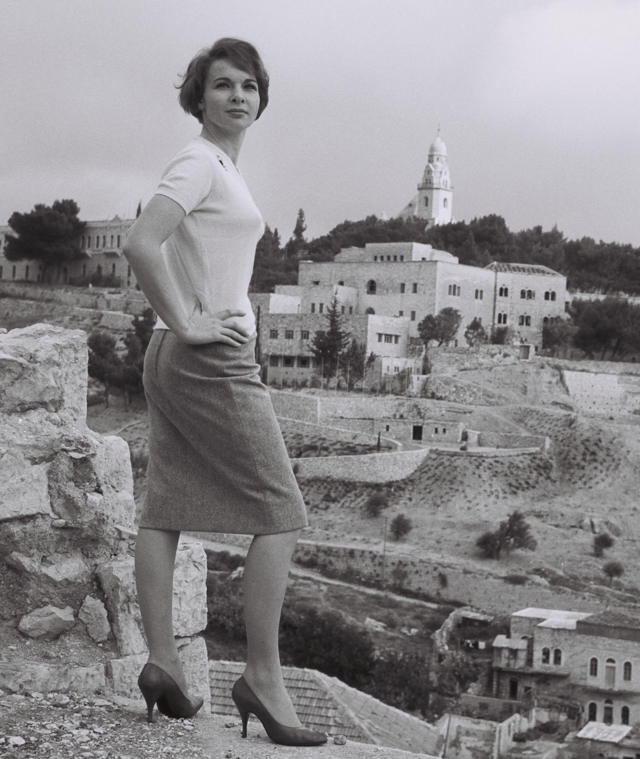 Francoise Arnoul during a visit to Jerusalem, 1958